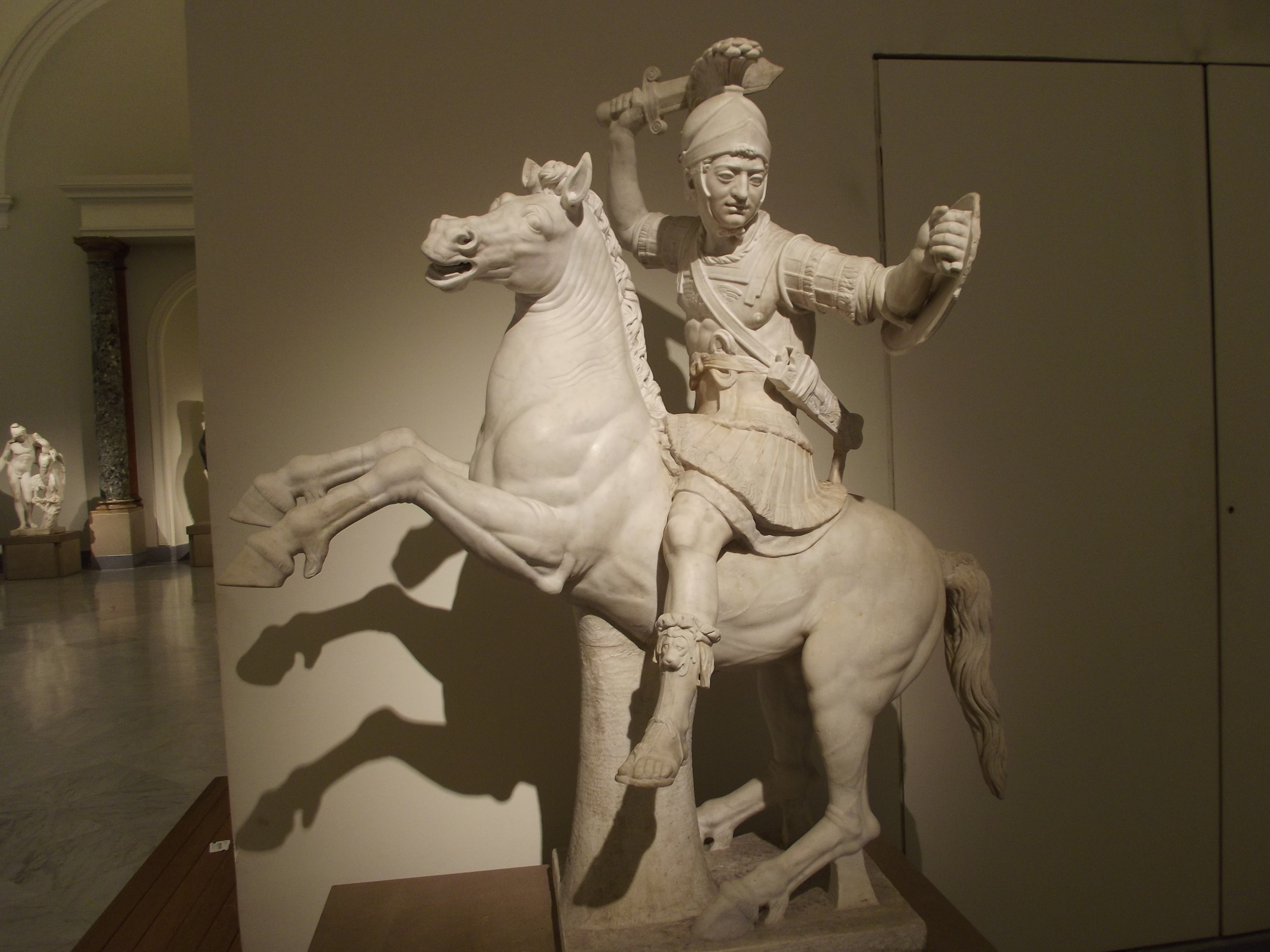 Warrior on horseback. 1st-century statue